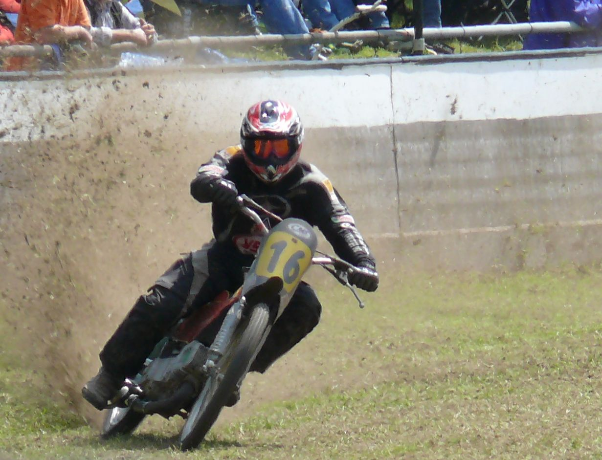 Roberth Barth 2007 Christian Hülshorst